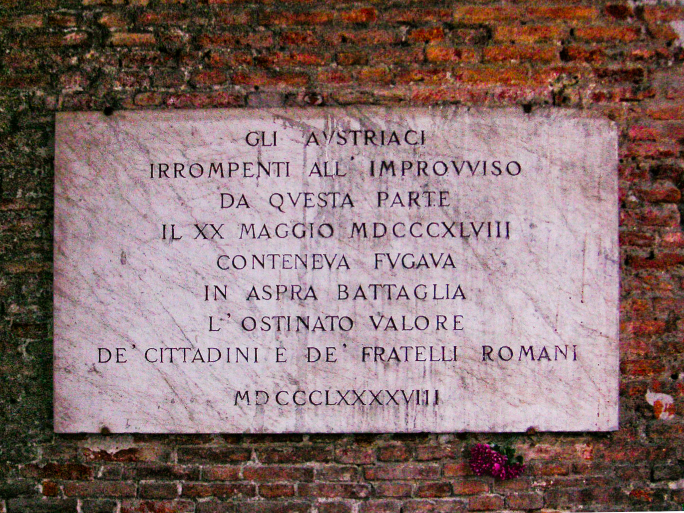 Lapide sotto la Porta S. Lucia che celebra la resistenza del 1848